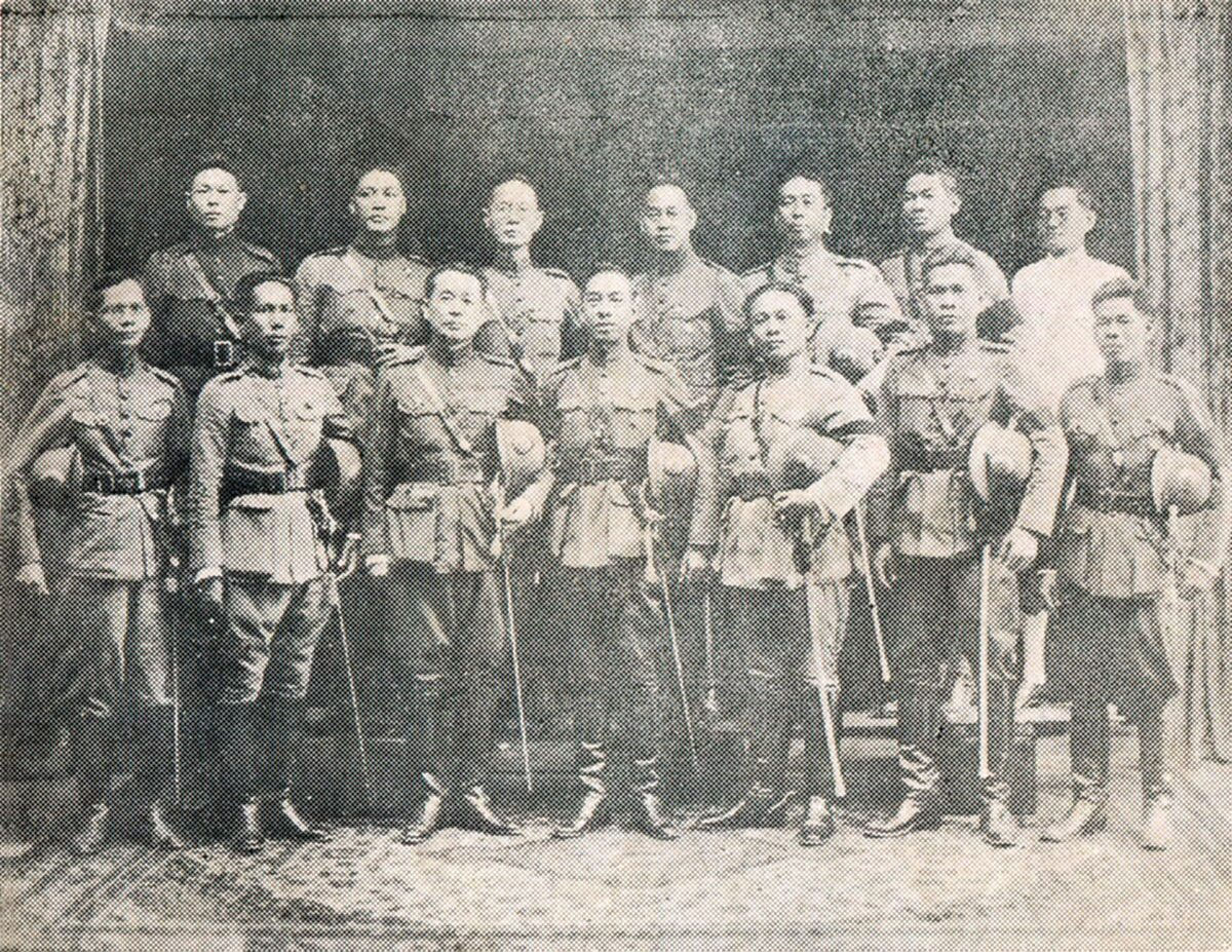 Photograph of Siamese 1912 Failed Palace revolt plotters